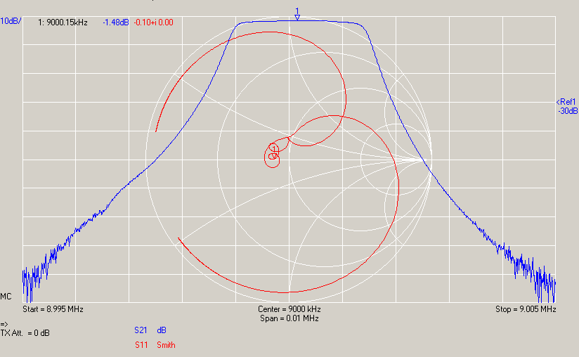 Passband characteristic of a crystal filter